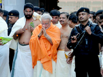 Narendra Modi offers prayers at Sree Padmanabhaswamy Temple in Trivadrum, Kerala